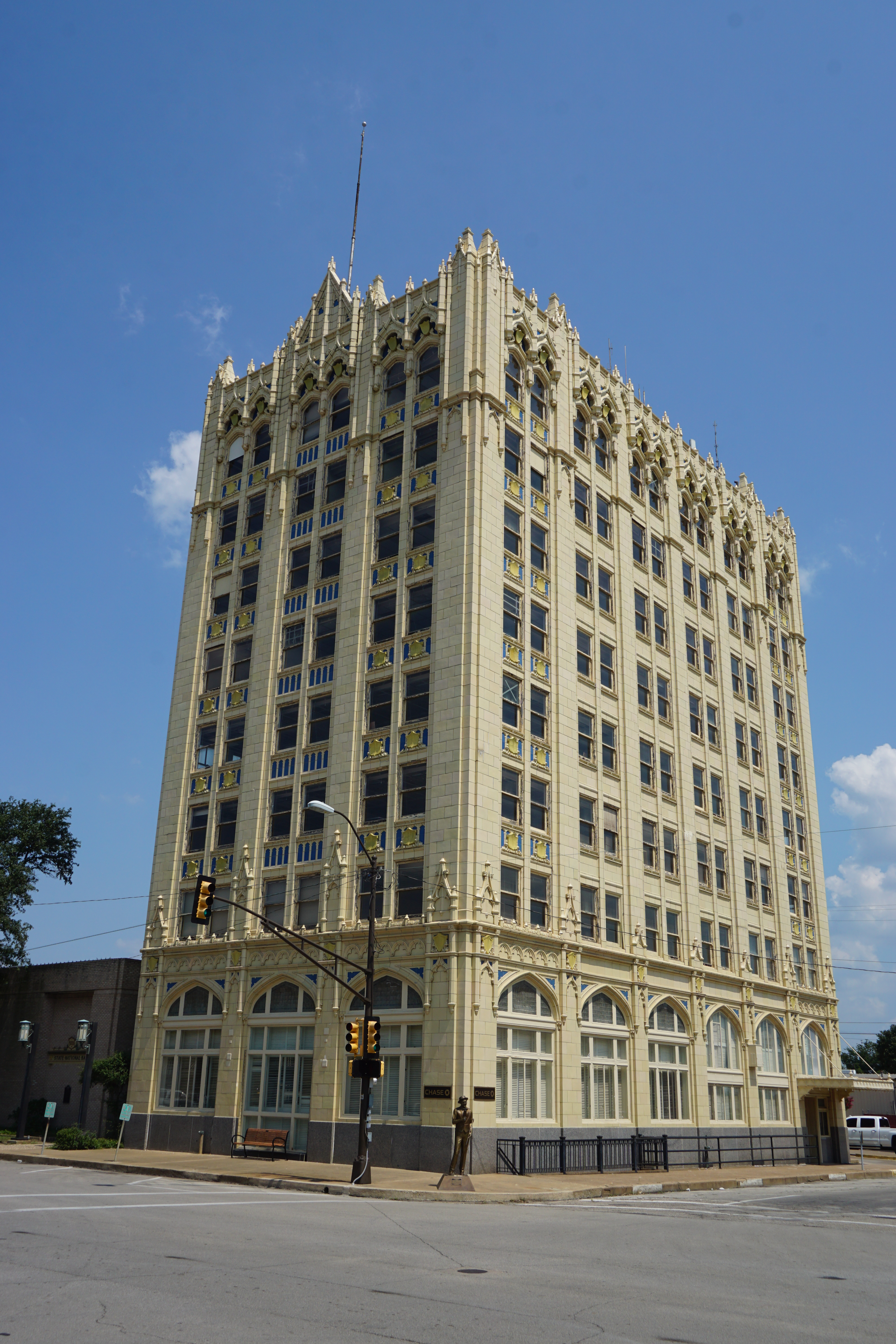 The State National Bank building in Corsicana, Texas (United States).